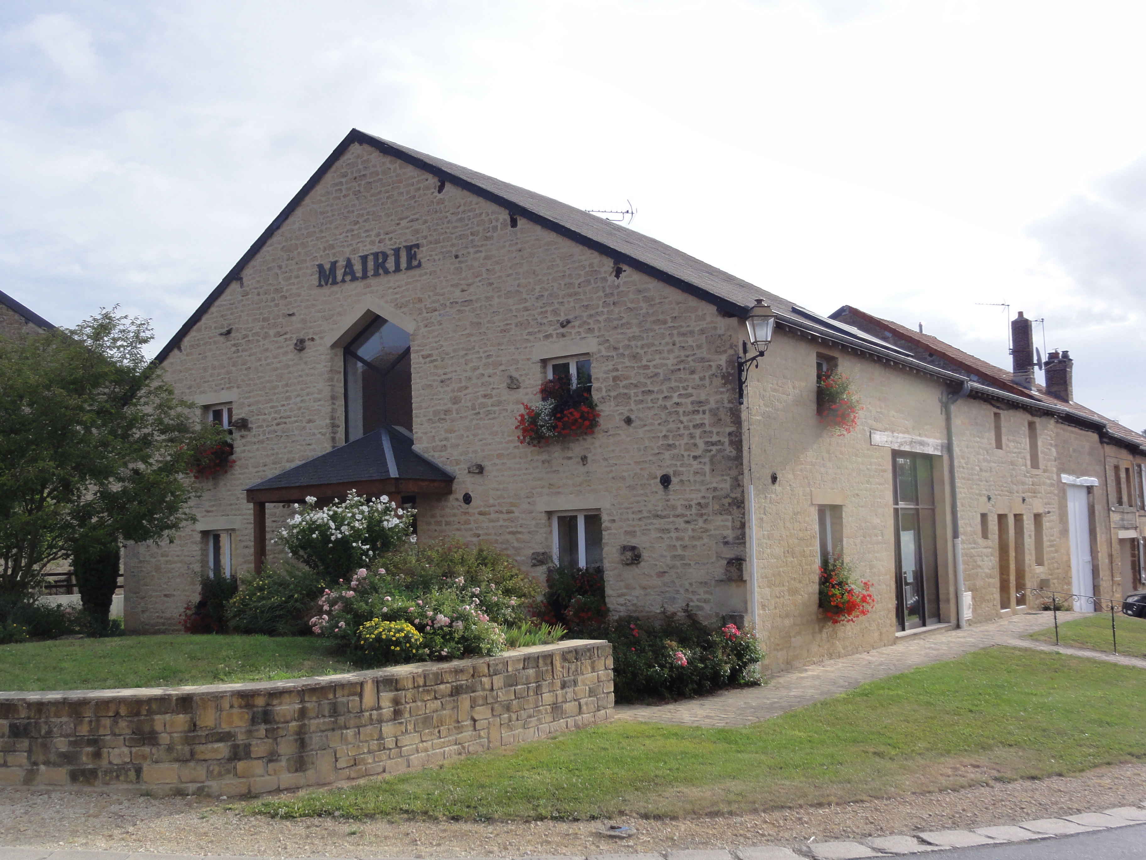 Warnécourt (Ardennes) mairie